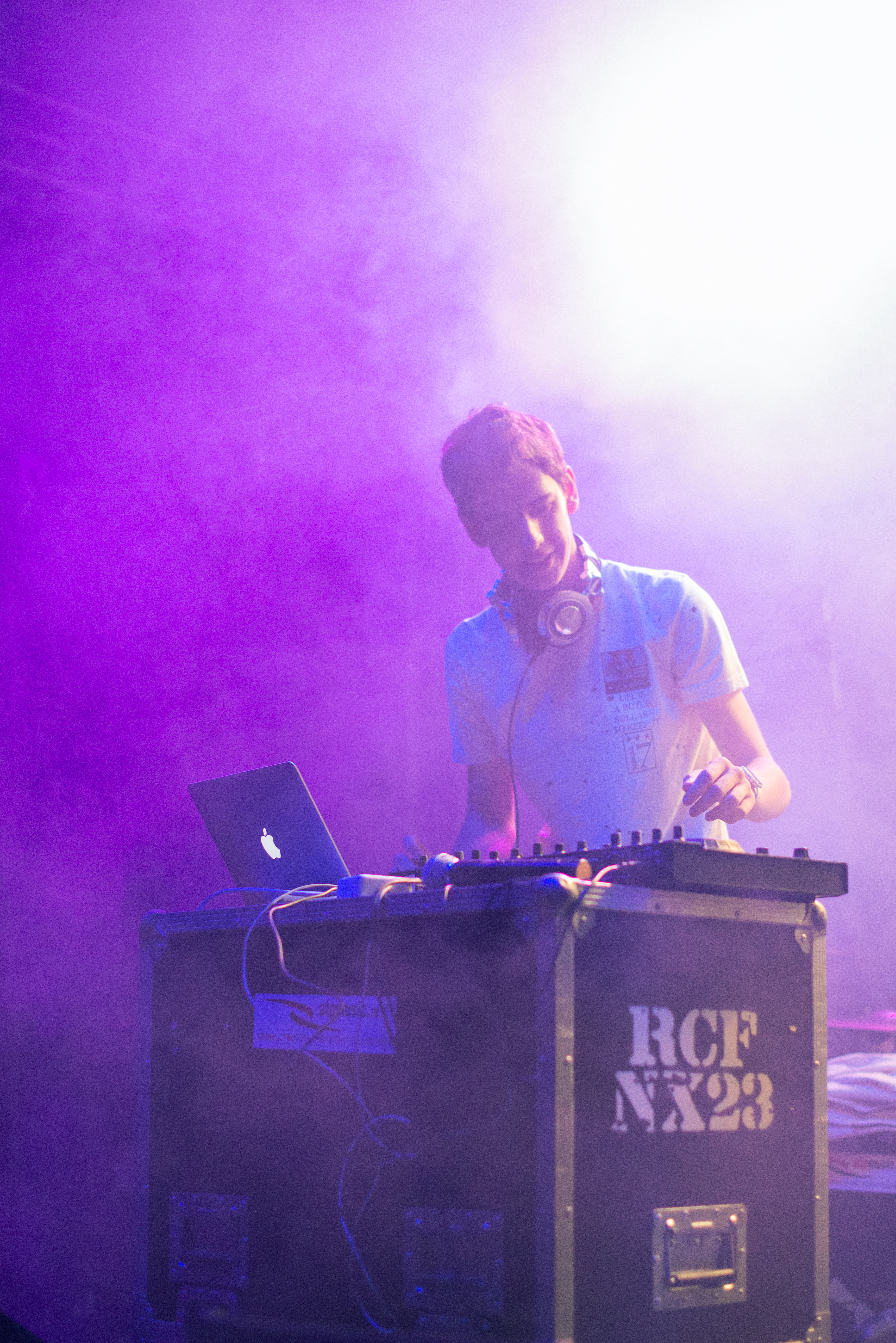 Mix-Roman live photo from BMSTU Open Air